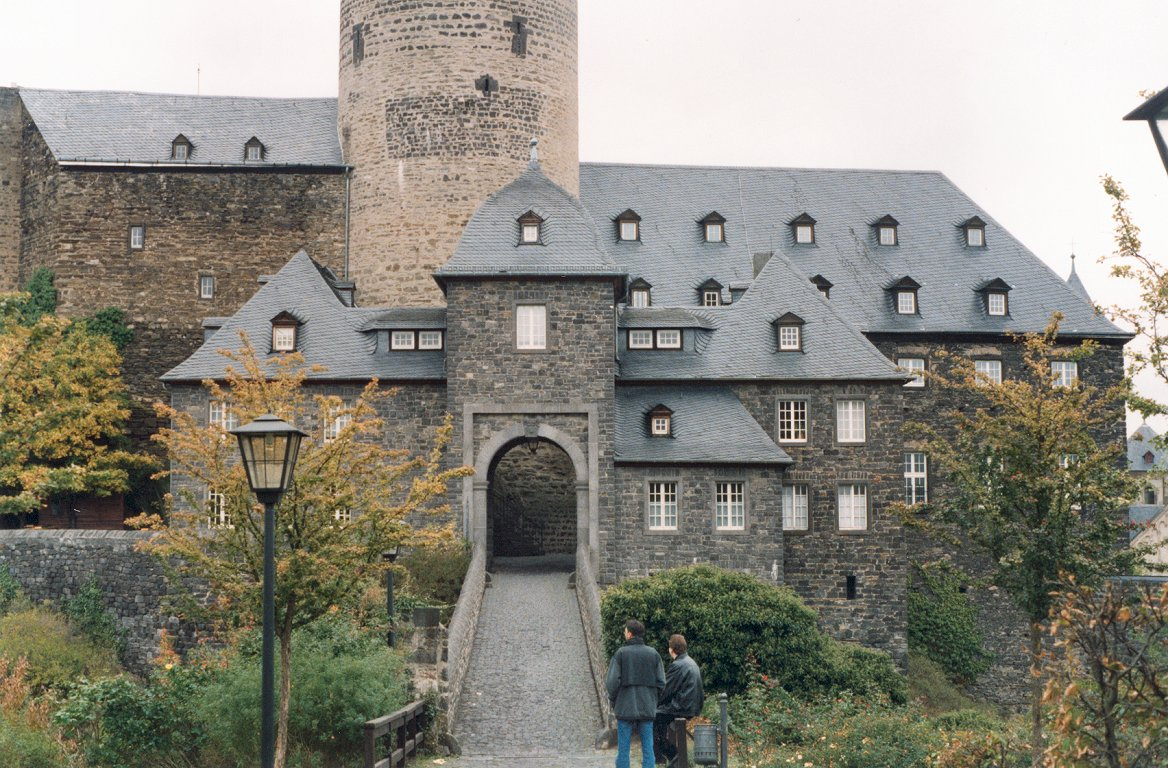 Genovevaburg in Mayen, view from south